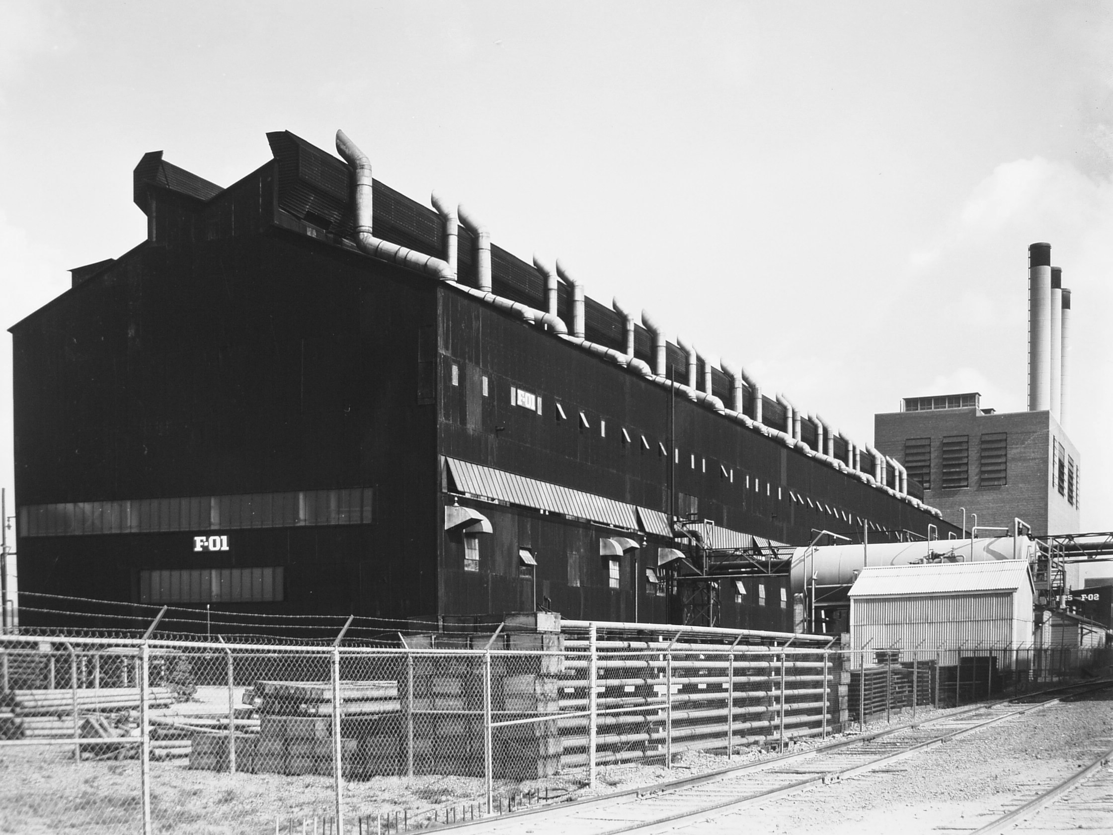 Thermal Diffusion Process Building (F01) at S-50 completed